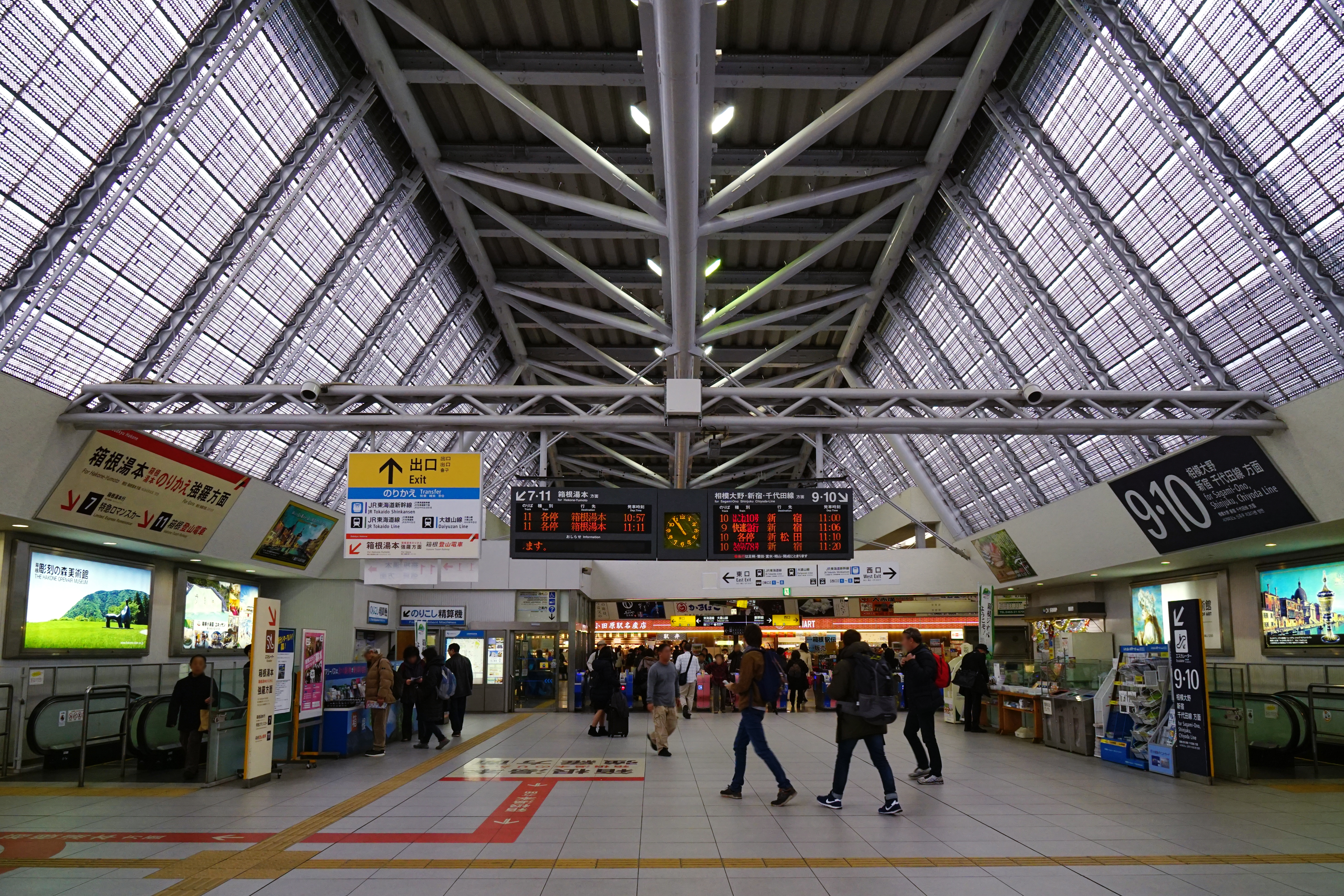 Odawara Station in Odawara, Kanagawa Prefecture, Japan